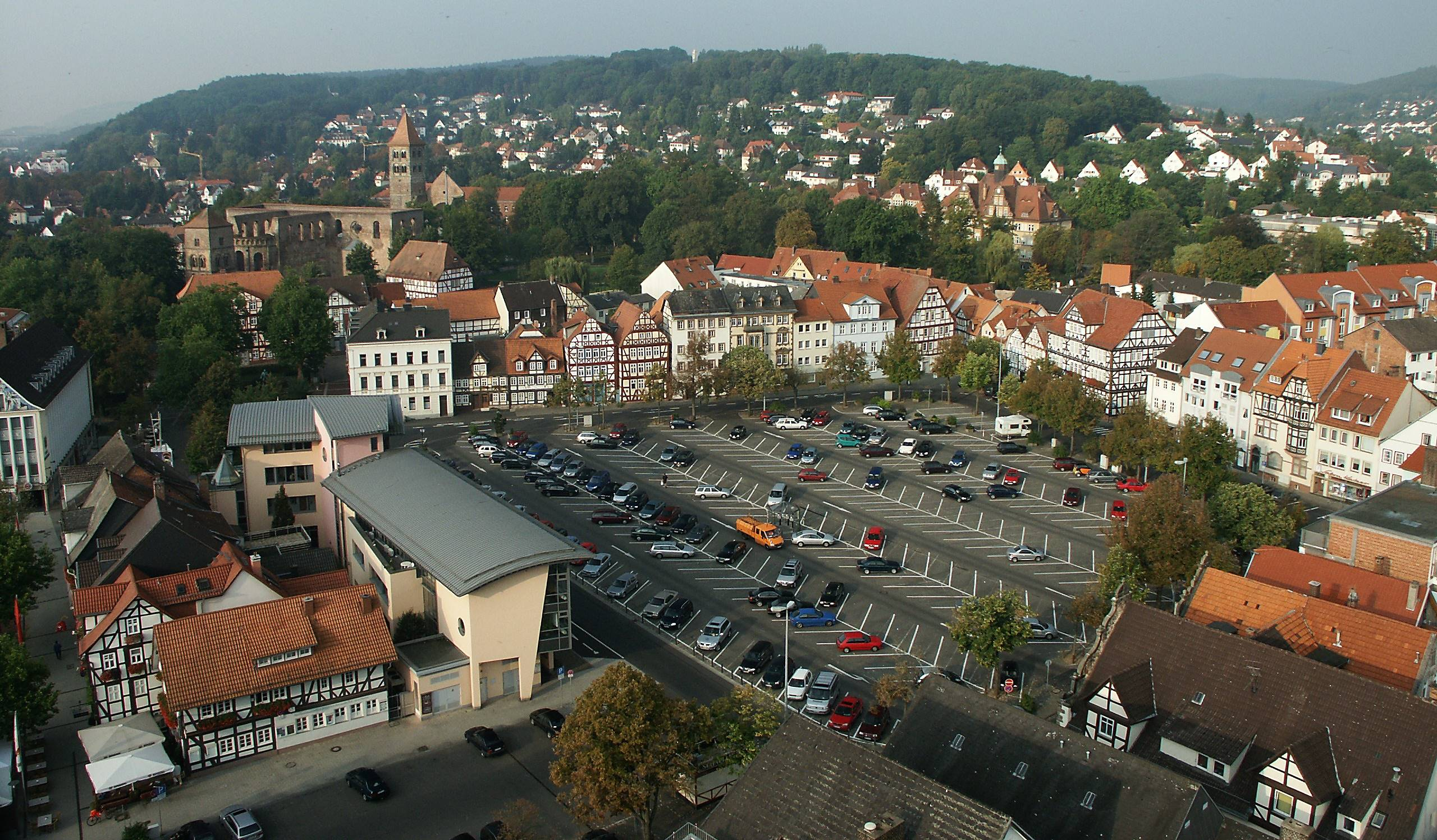 In the foreground Marktplatz, venue of the annual Lullusfest. On the bottom left the Konrad-Duden-Stadbibliothek an above the Cathedral. In upper background ist the mountain Tageberg